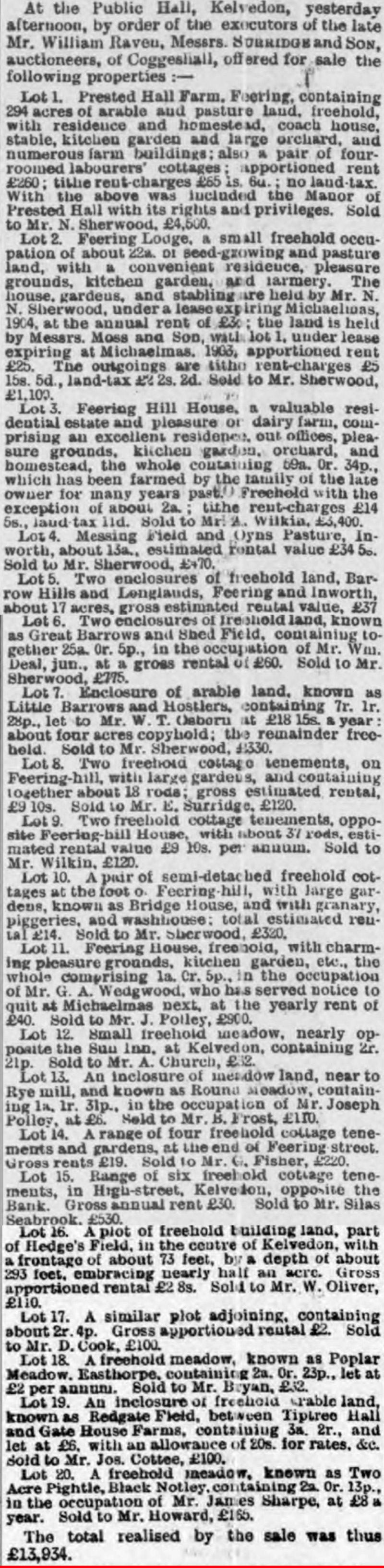 Notice about the buyers of properties in Feering in 1898